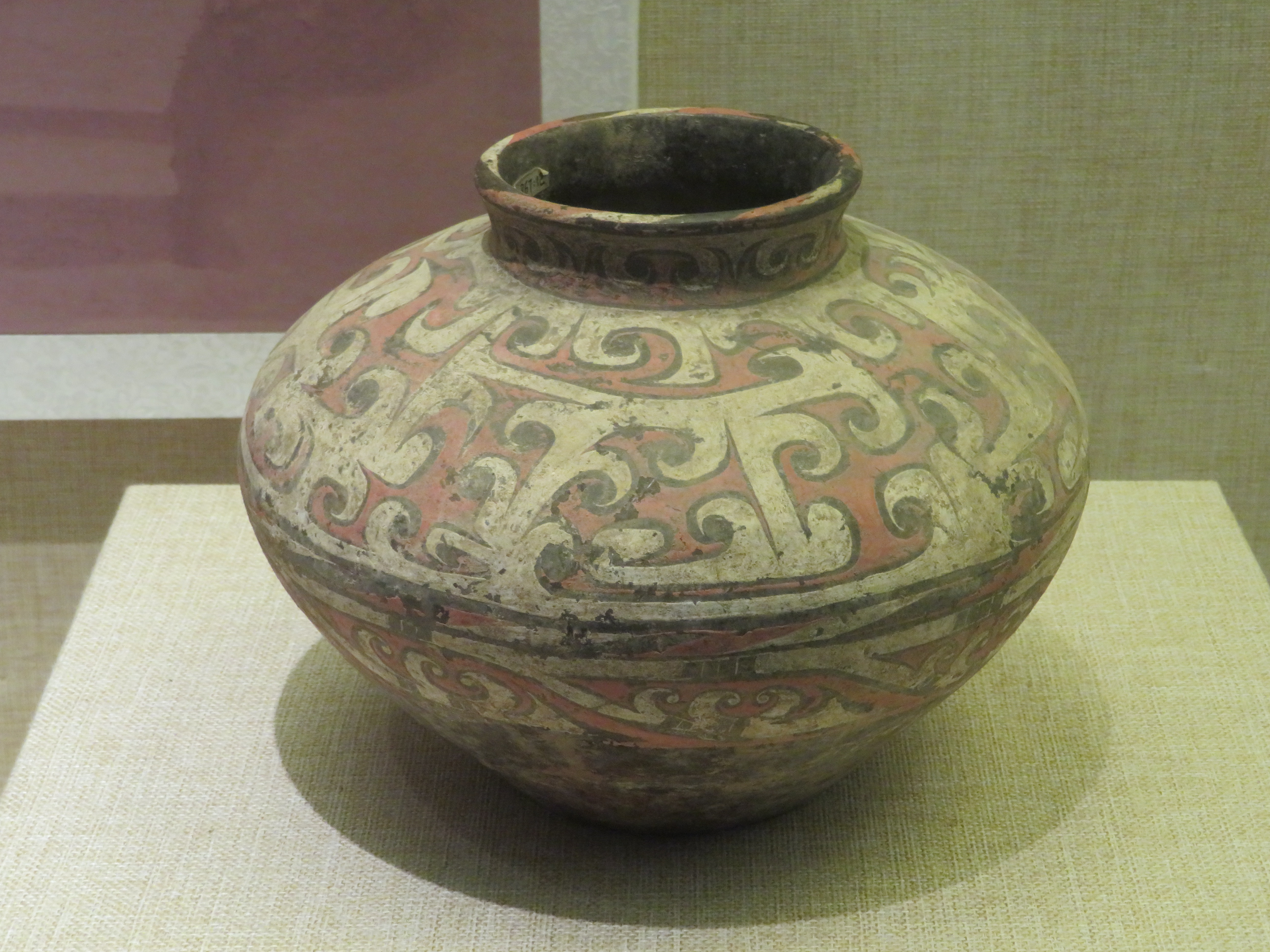 Colour-painted pottery guan. Xiajiadian lower level culture. Excavated from a site at Erdaojingzi in Inner Mongolia in 2009-2010.